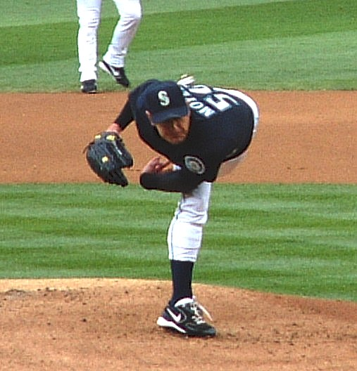 Jamie Moyer of Seattle Mariners in 2005.